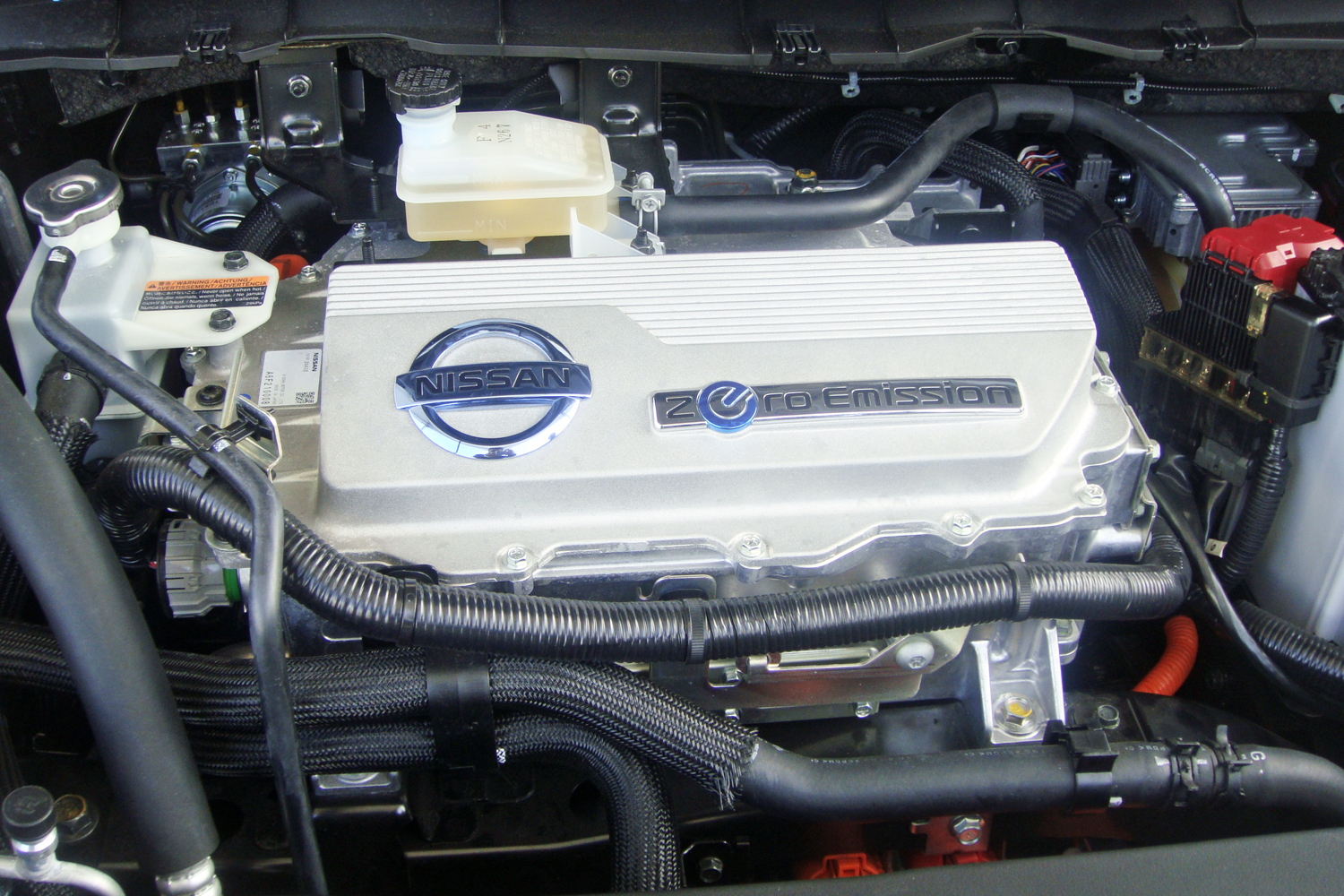 Nissan Leaf electric motor, Leaf exhibited at the 2011 Drive Electric Tour Washington DC